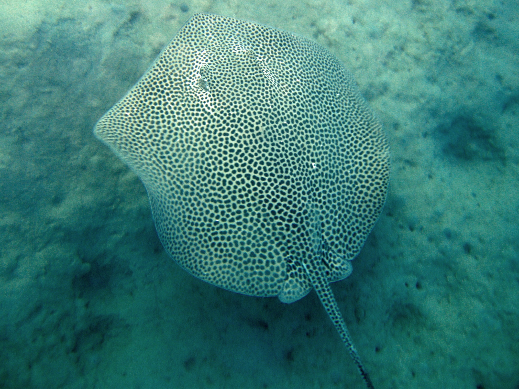 Honeycomb stingray (Himantura uarnak) in the Red Sea off Al Bahr al Ahmar, Egypt